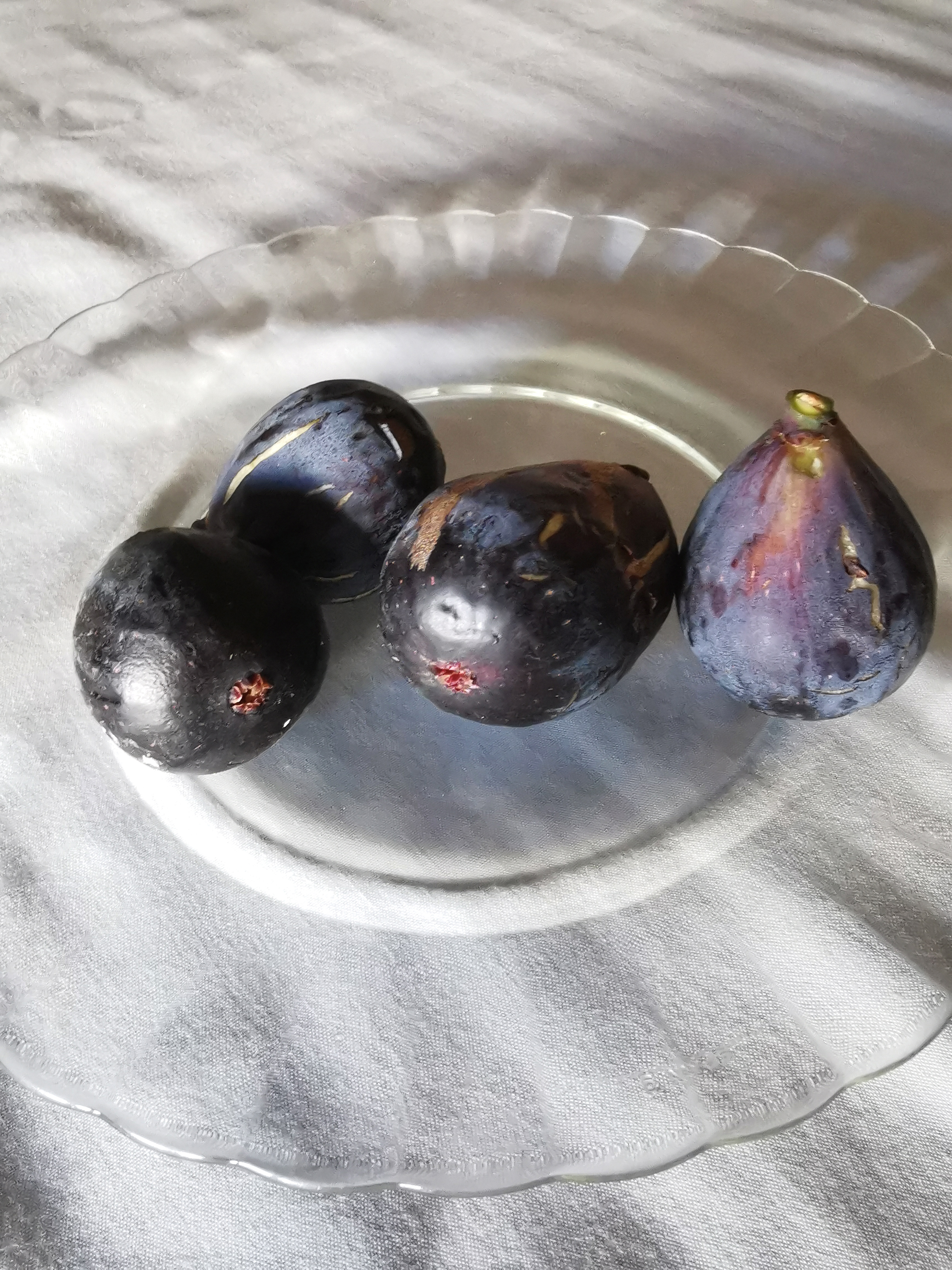 Colar figs in Puertollano, Spain